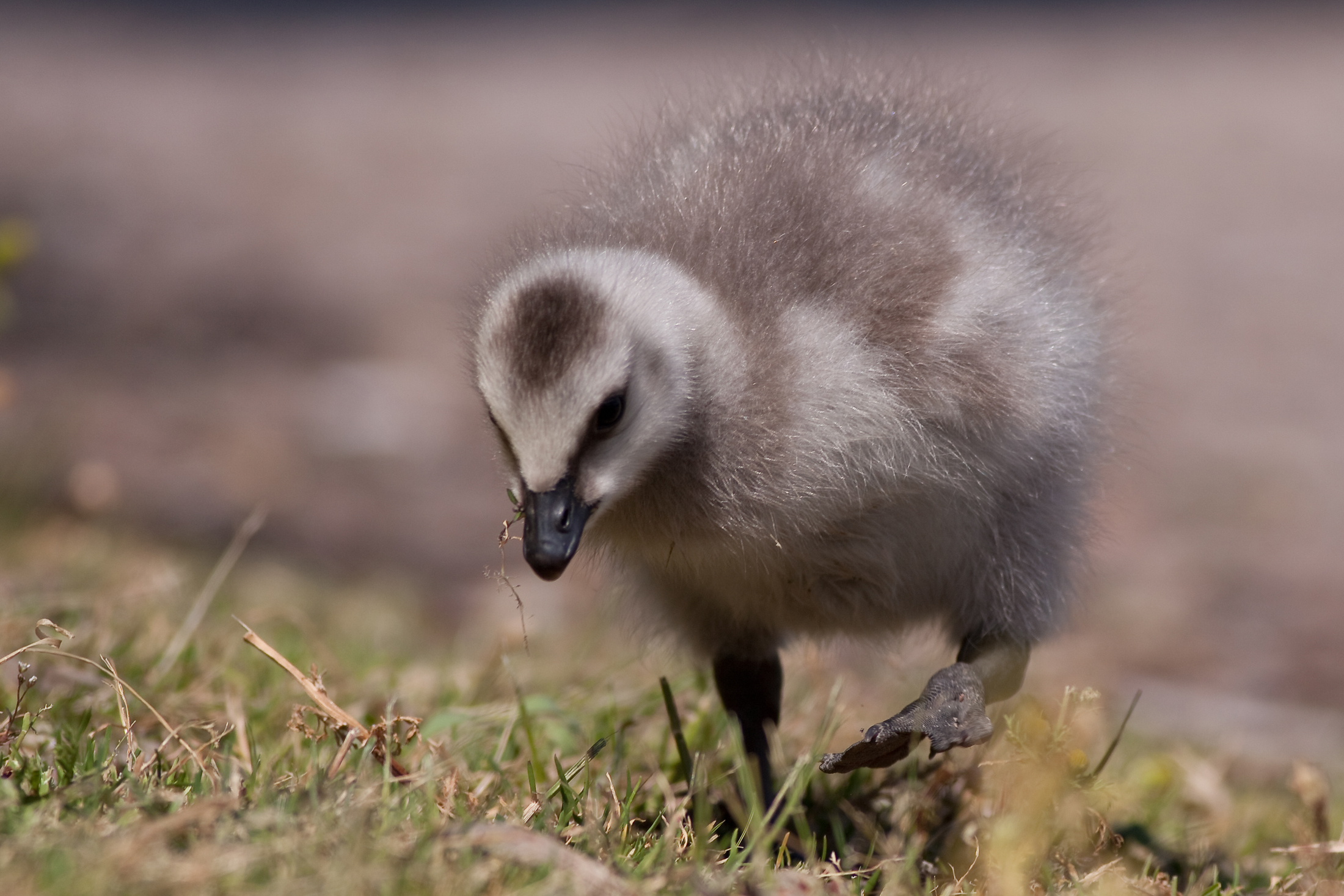 Juvenile Barnacle Goose (Branta leucopsis)